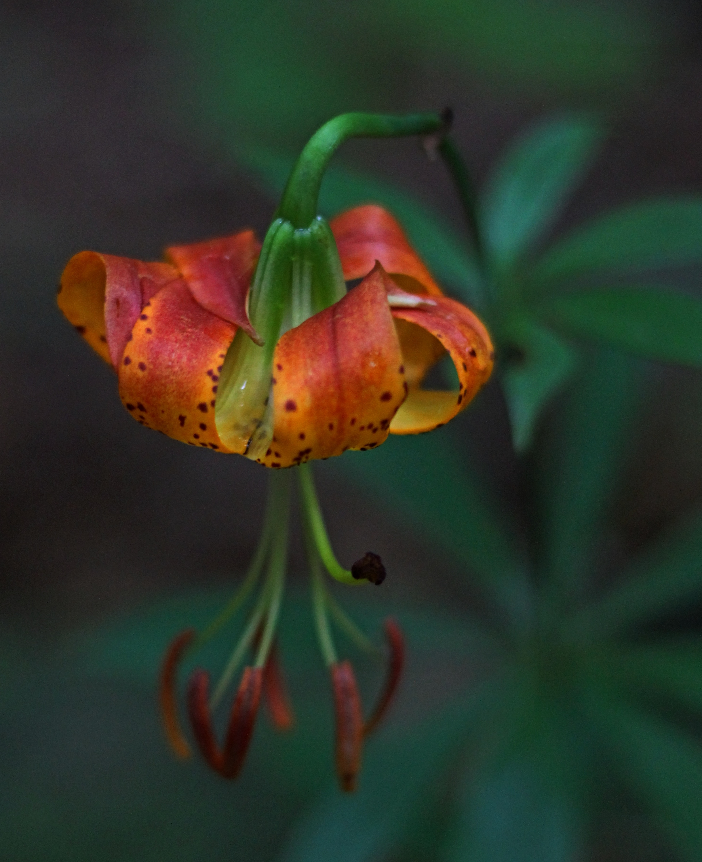 Carolina Lily, Uwharrie National Forest, North Carolina, USA